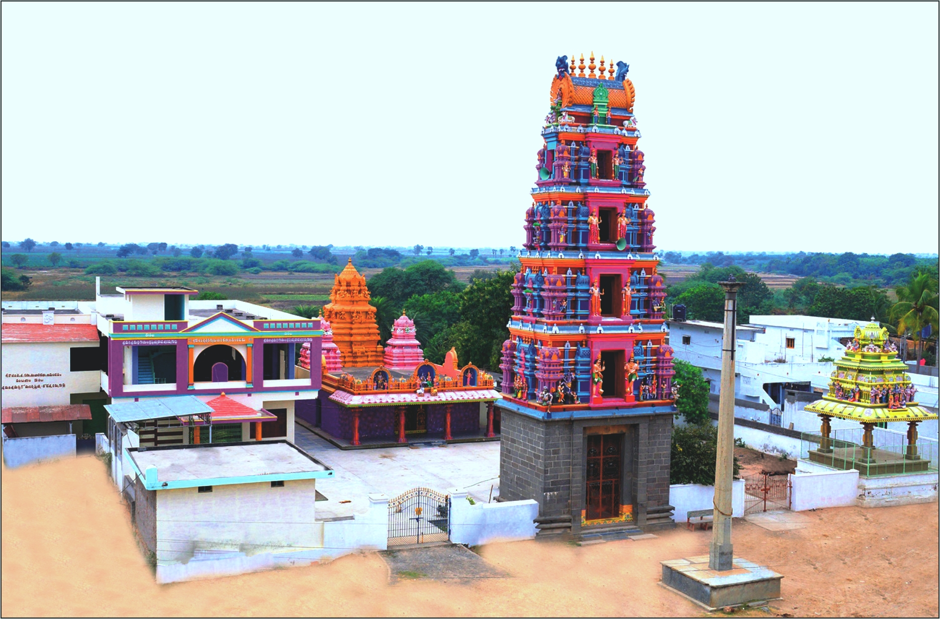 Lord SivaTemple Ponugupadu